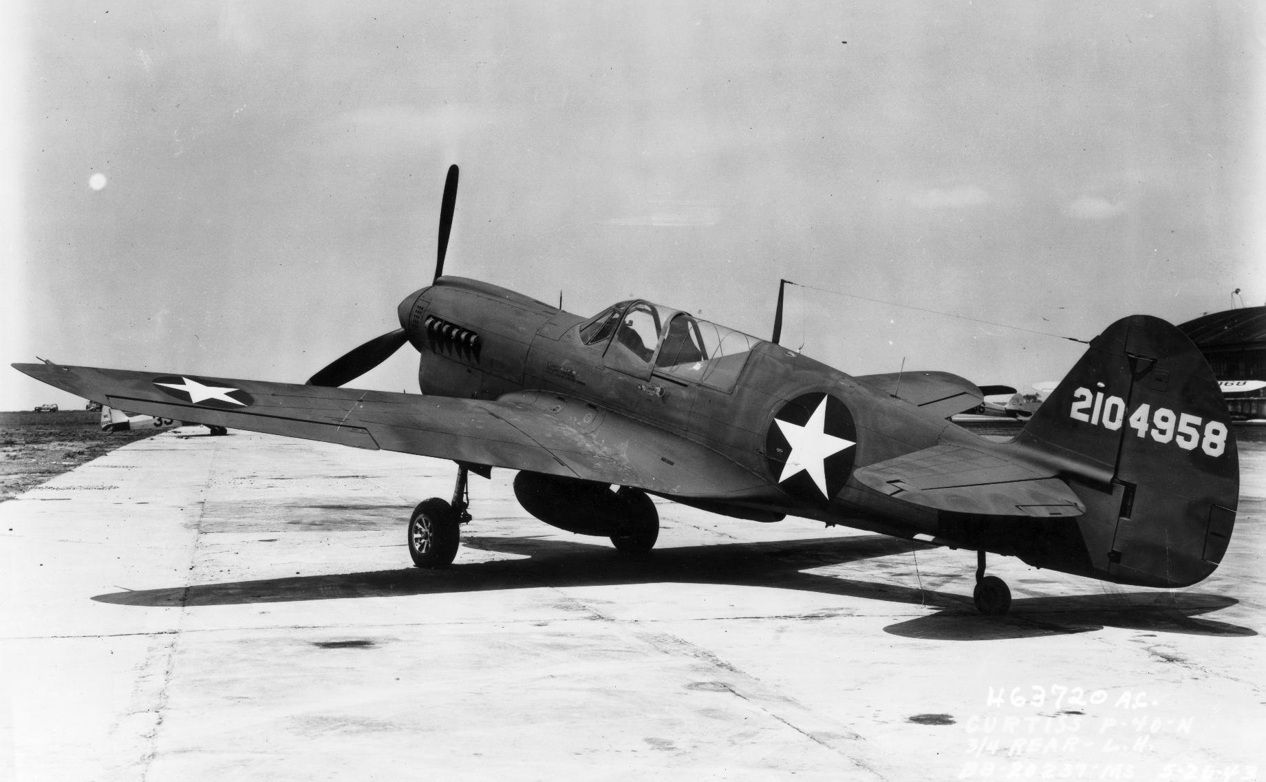 Curtiss P-40N Warhawk, s/n 42-104958.